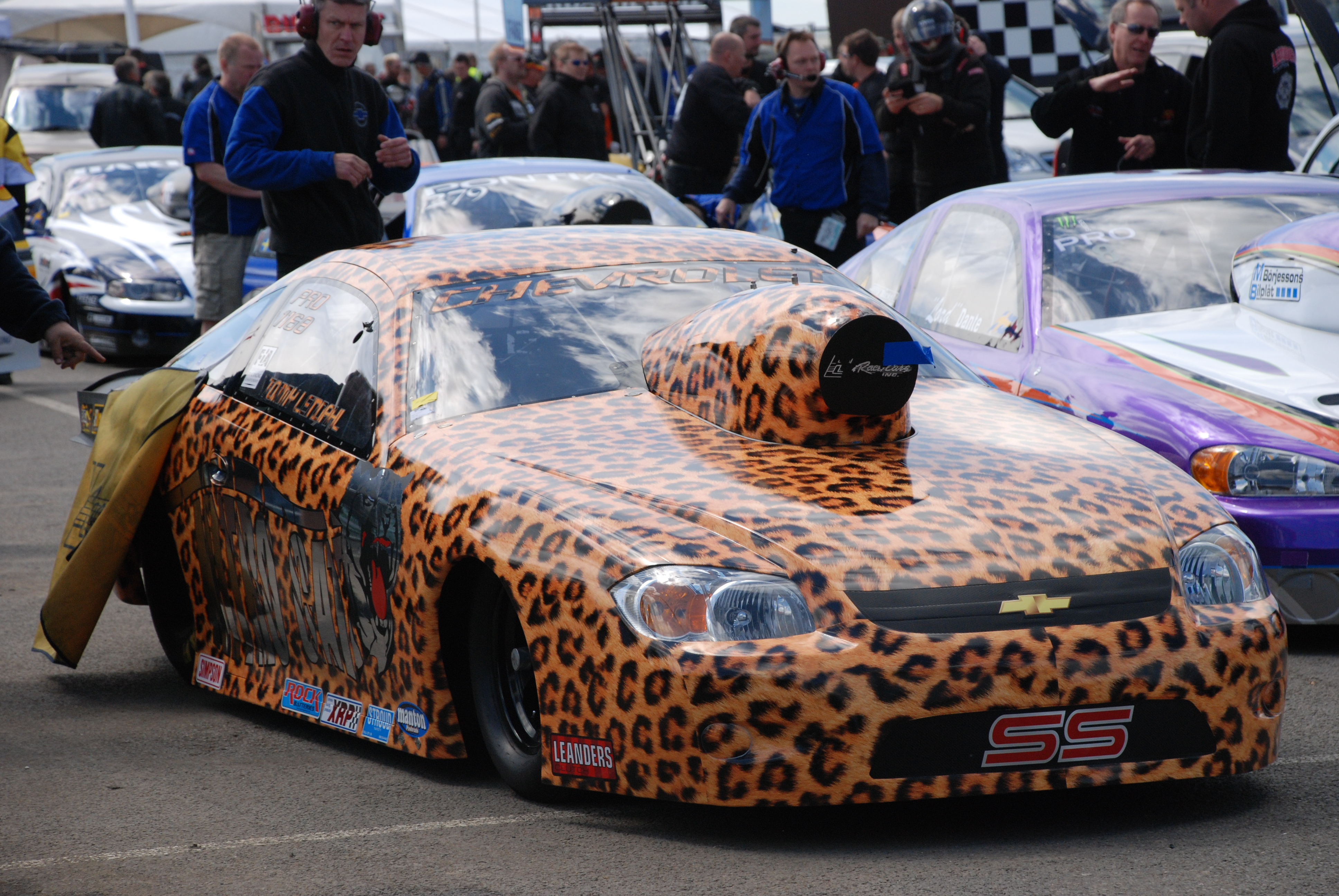 FIA Top Pro Stock - Santa Pod